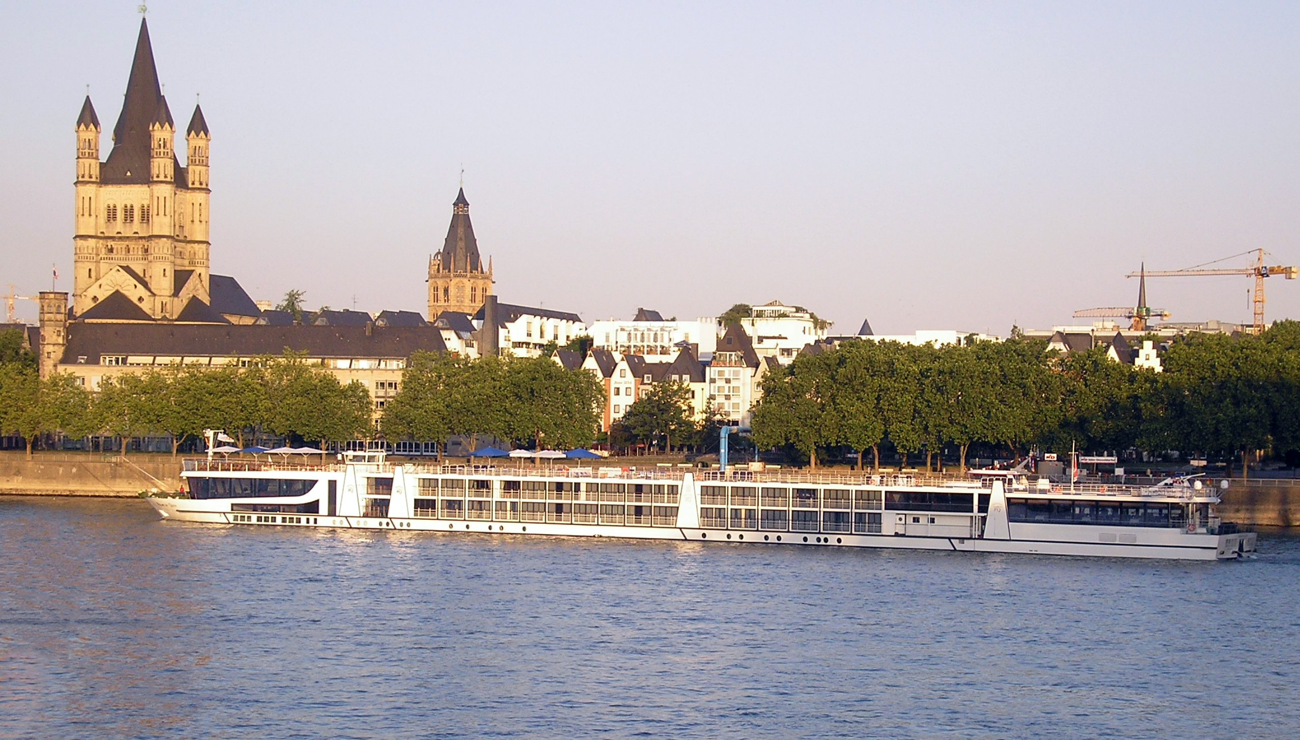 Premicon Queen at Cologne